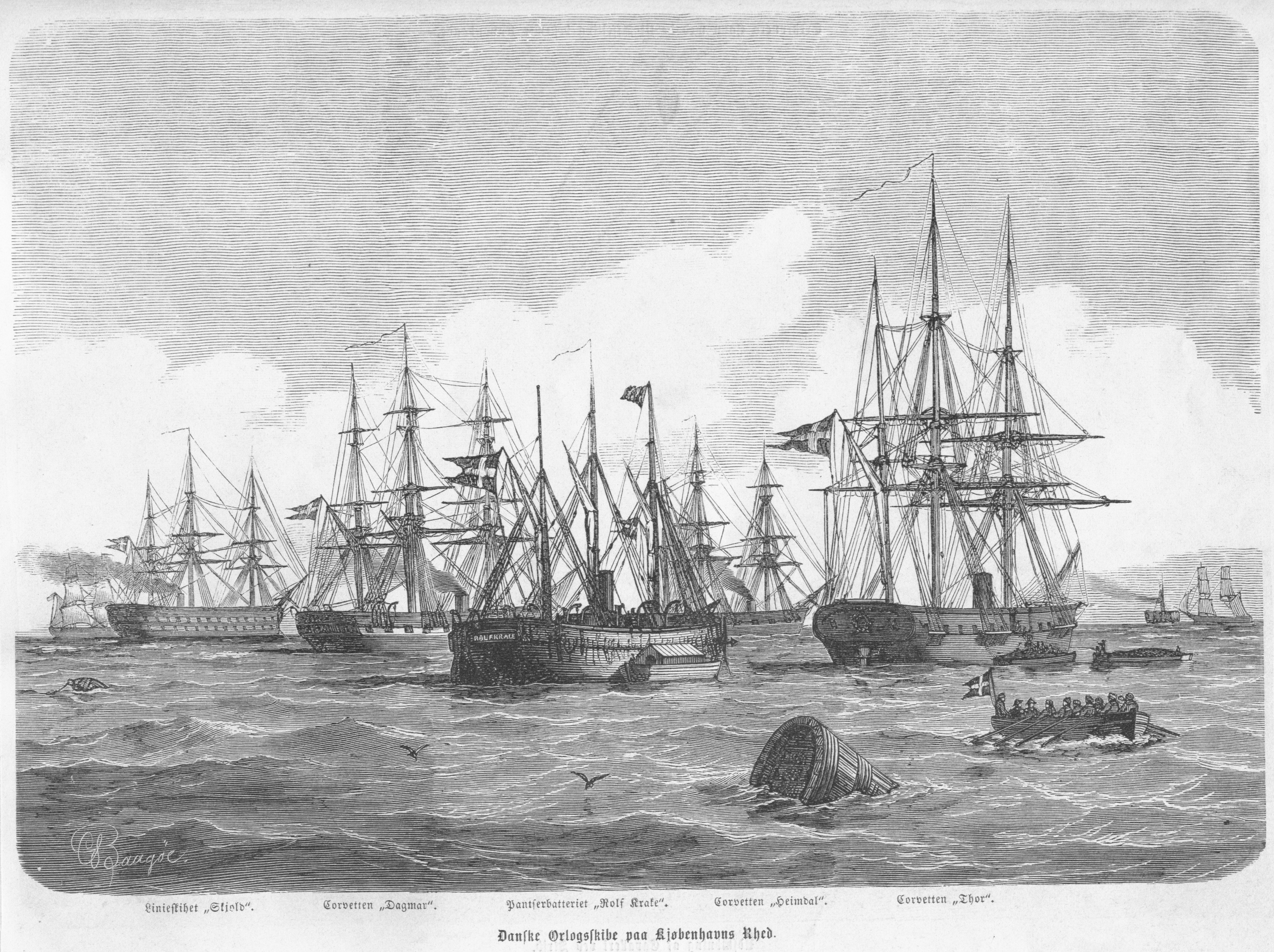 Danish warships on the Copenhagen Roads. From left to right: Skjold (ship of the line), Dagmar (corvette), Rolf Krake (ironclad battery), Heimdal (corvette) and Thor (corvette). Contemporary illustration of the 1864 German-Danish War. The drawing appeared in Illustreret Tidende February 21 1864.